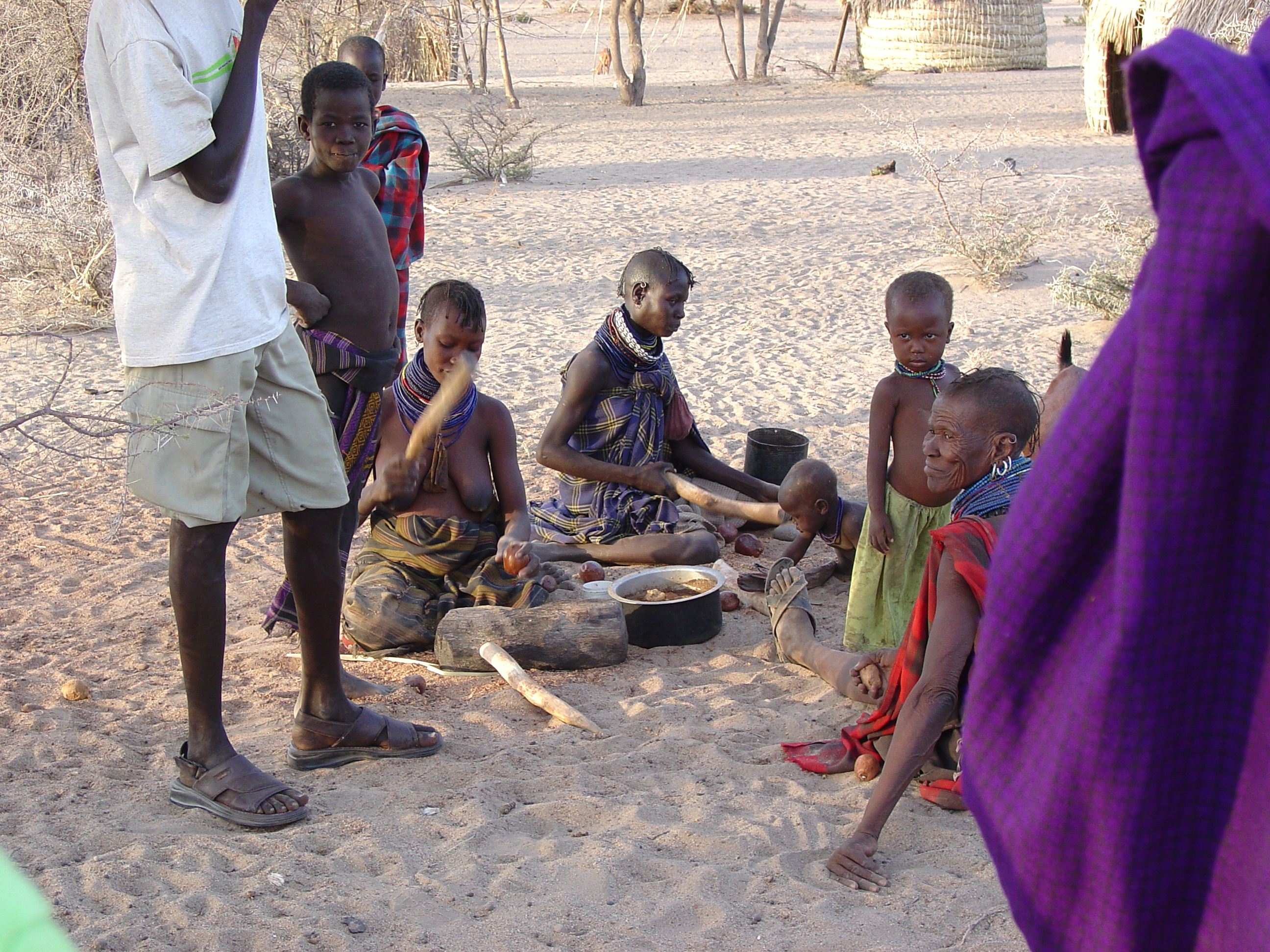 Turkana women pounding palm nuts to remove the husks.